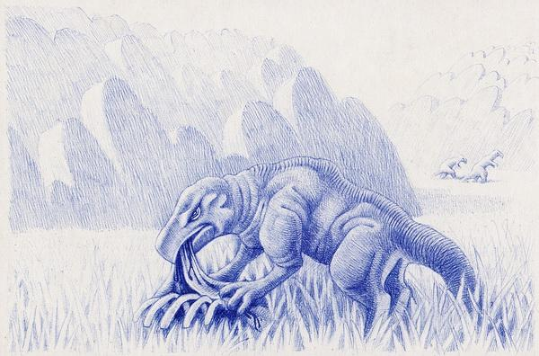 Ballpen drawing, 15cm x 10cm, no title